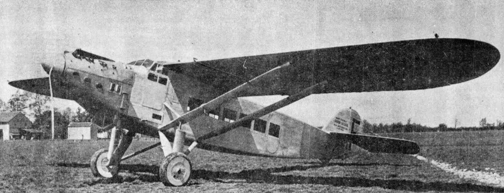 Late 28 photo from NACA Aircraft Circular No.112